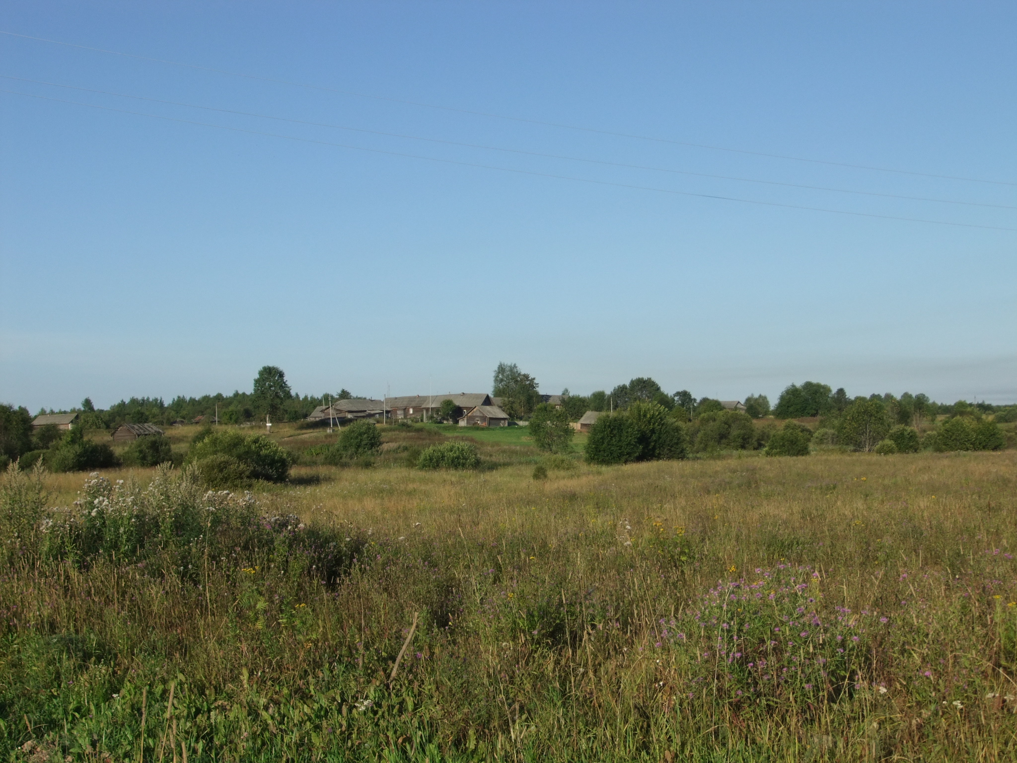 A field road on the NW outskirts of Kornilovo a village in the Poshekhonye District of Yaroslavl Oblast, in northern Russia. The road runs to the northwest, toward woodlots in the nearby forest.